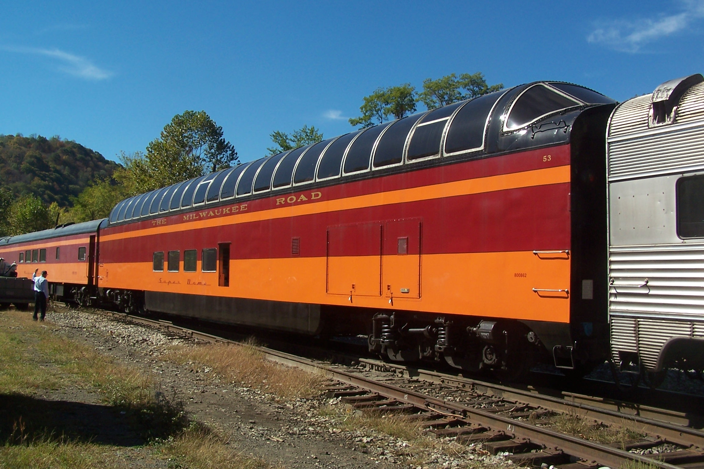 Ex-Milwaukee Road Super Dome car. There were many private cars on this year's New River Train. This shot was taken during the three hour layover in Hinton, WV on October 21st.